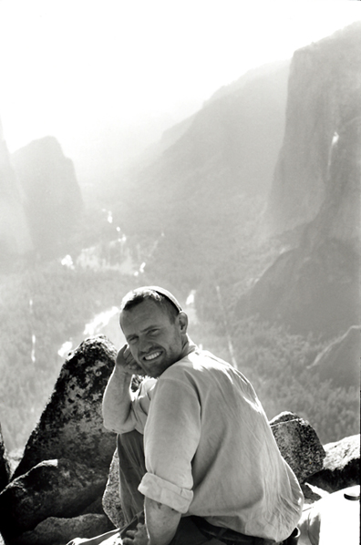 A photo of Nobel Prize-winning physicist and mountaineer Henry Kendall taken on top of Lower Brother in Yosemite Valley.